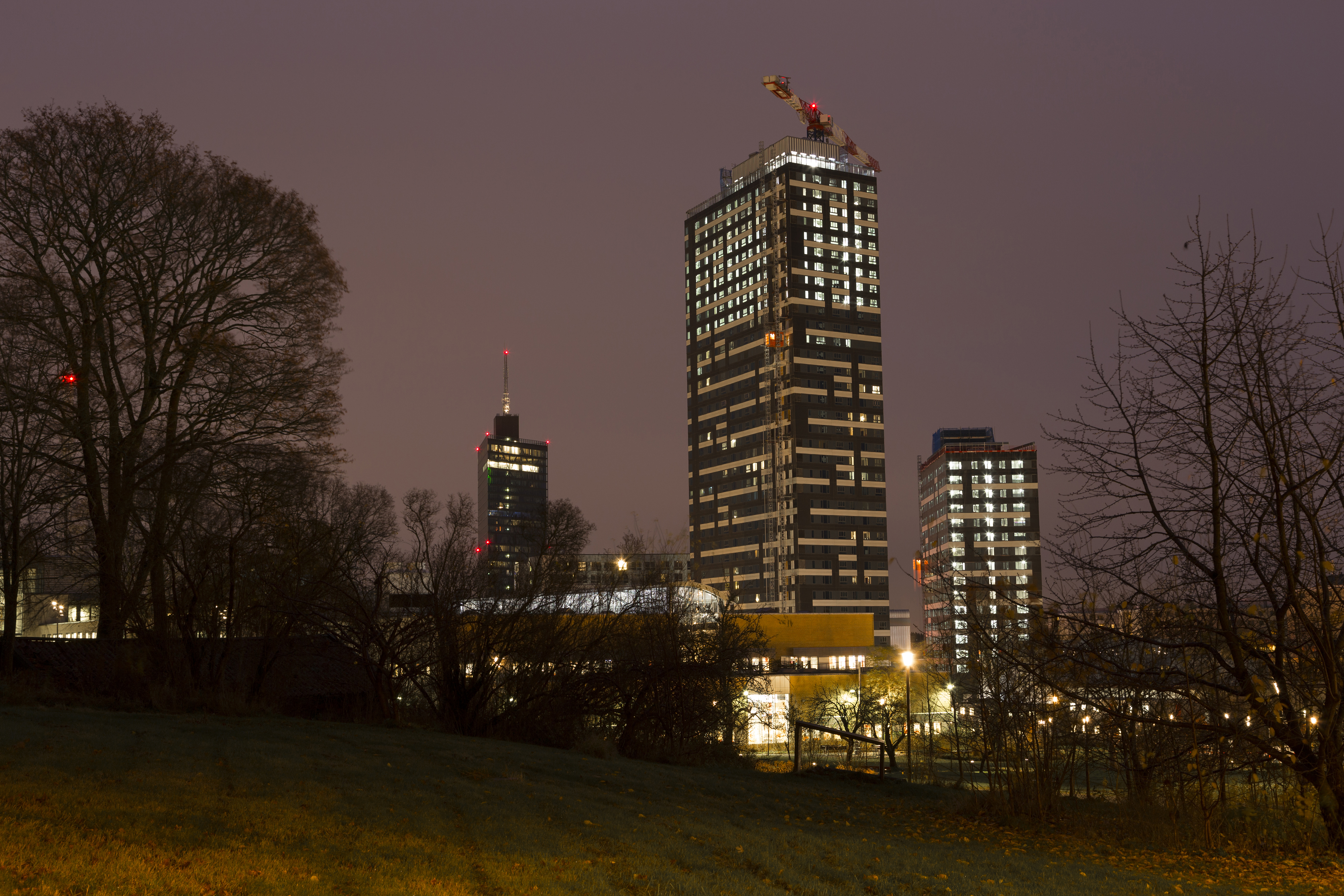 Kista Tower in Stockholm Sweden under construction